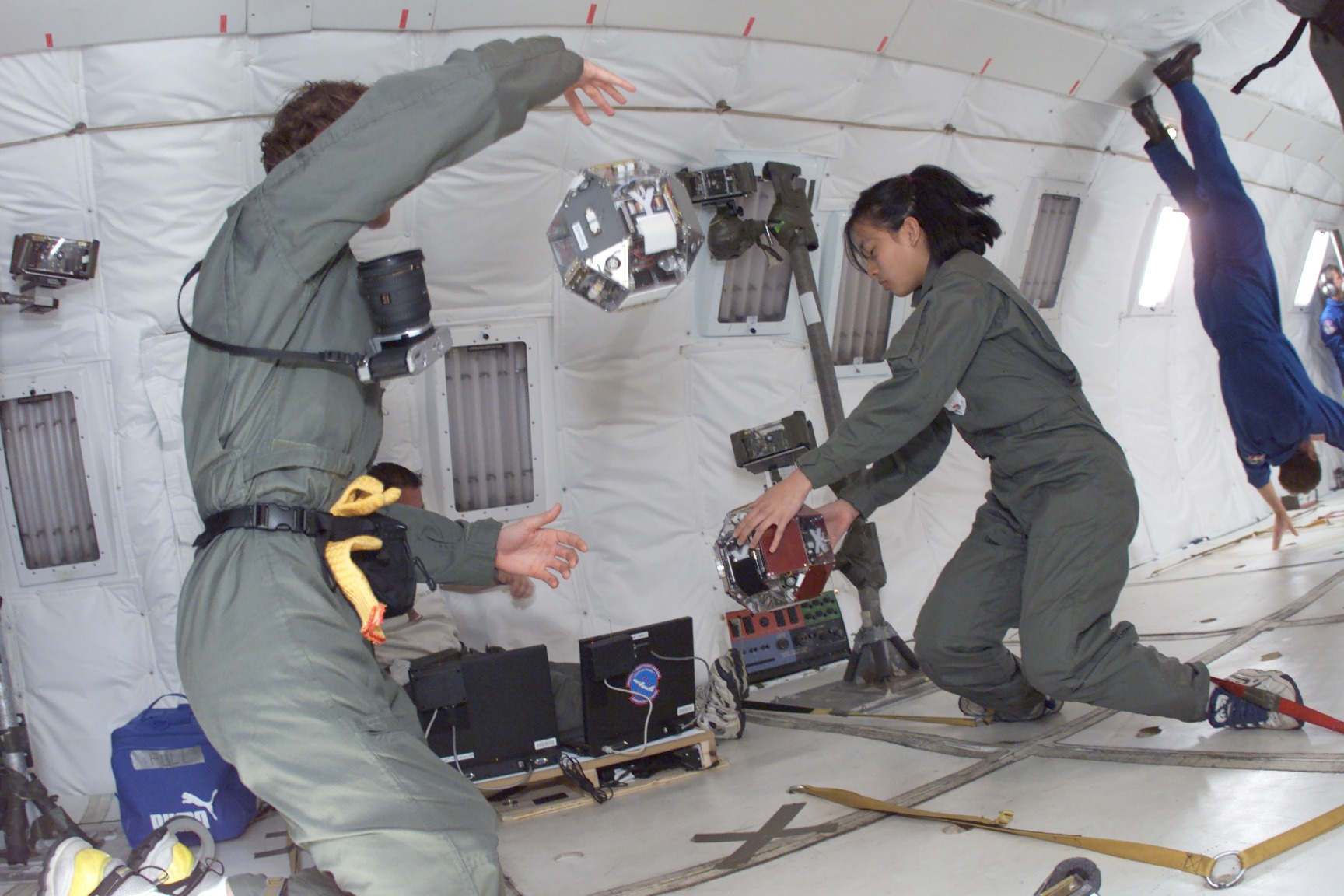 Students from the Massachusetts Institute of Technology perform tests on SPHERES satellites aboard NASA's KC-135 reduced gravity aircraft.